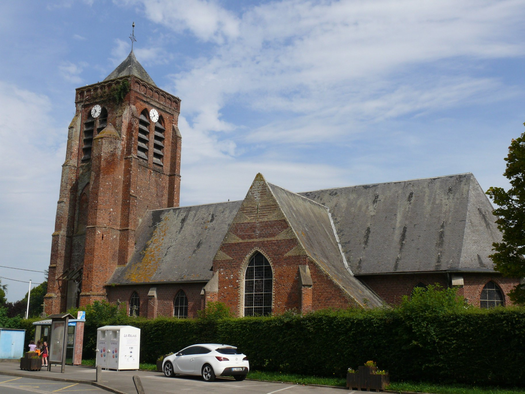 Saint-Peter-and-Paul's church in Pradelles (Nord, France).